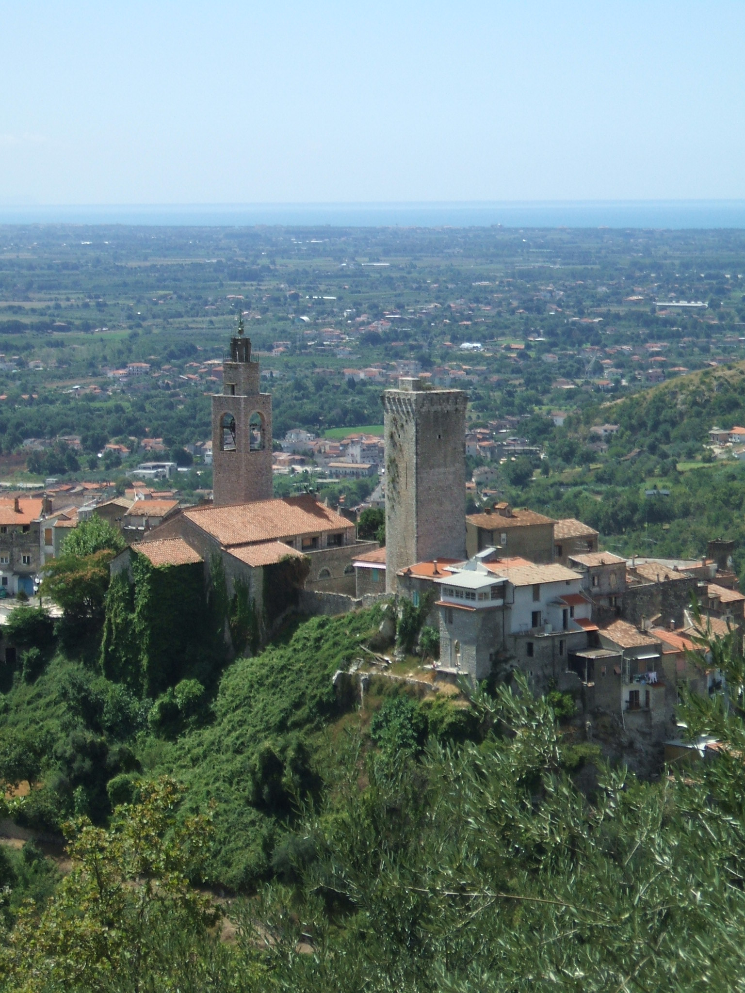 The Picture shows the view from the hill behind the town center of Castelforte ( Latina Province, Latium Region, Italy) of the Garigliano river valley and the Tyrrenian sea.